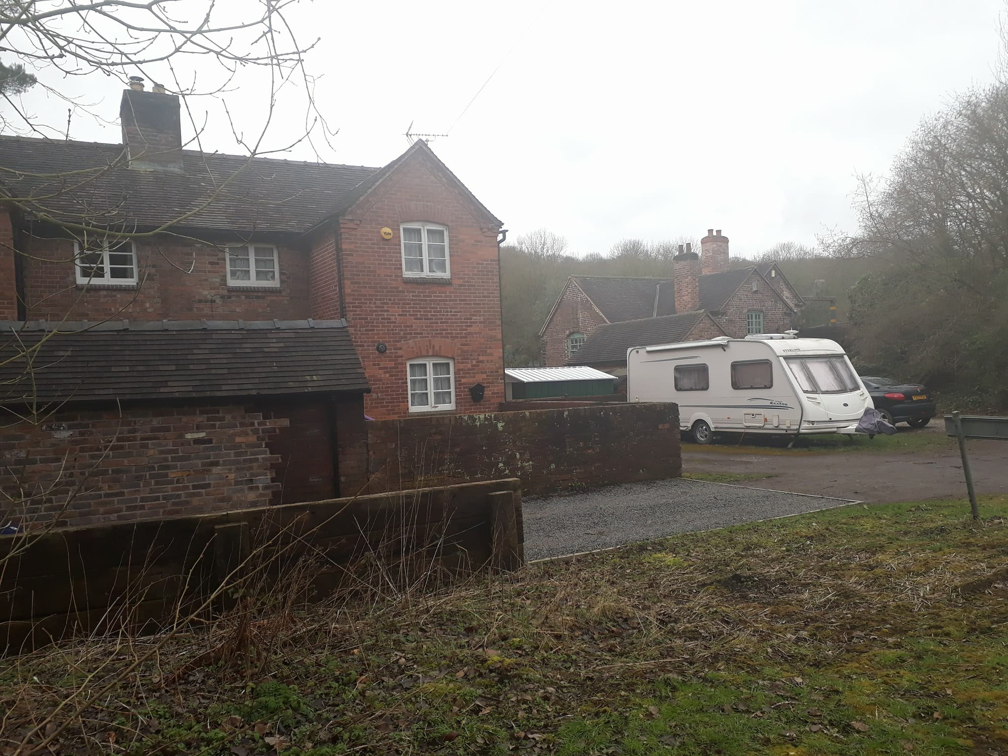 My own.